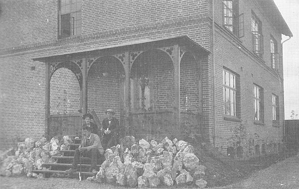 Glostrup Private Realskole